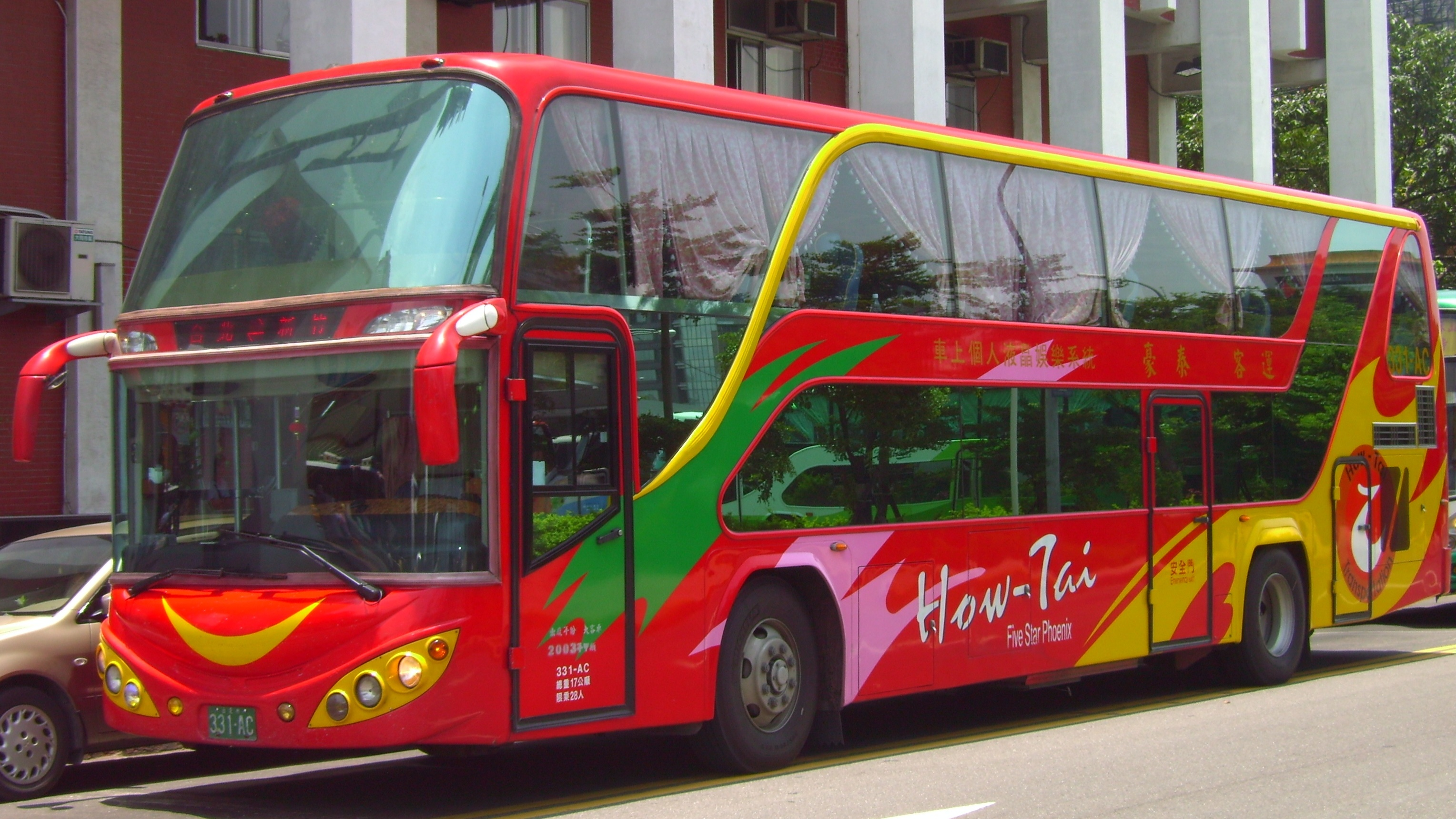 How-Tai Transportation Co., Ltd. operated freeway line by using Fuso RP517PL buses.